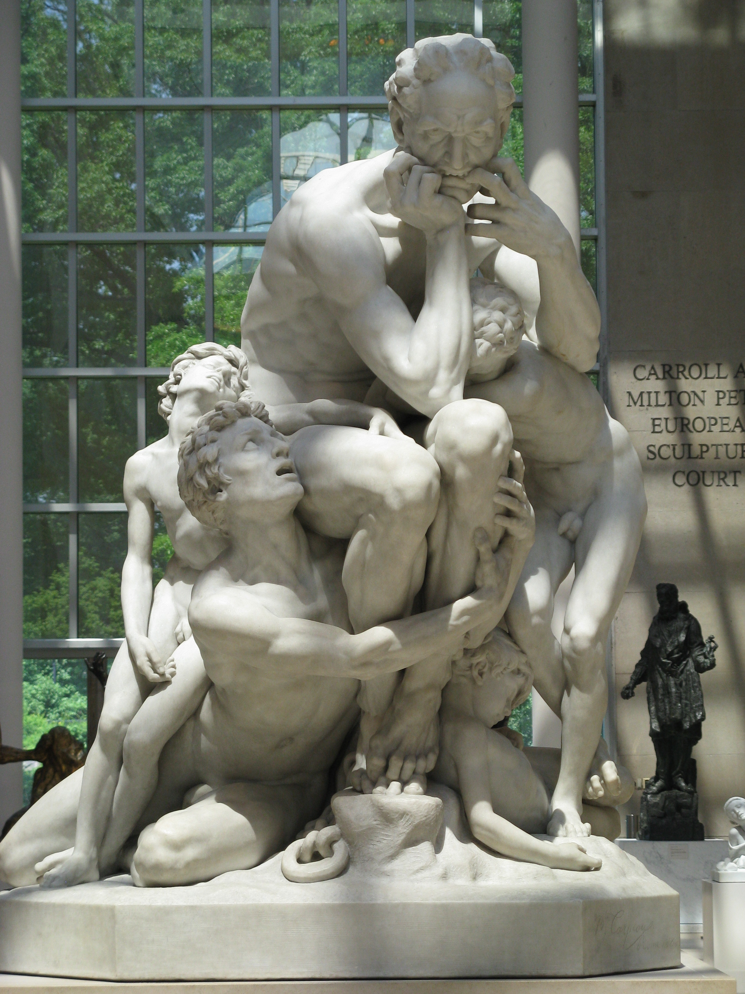 Ugolino and his Sons by Jean-Baptiste Carpeaux at Metropolitan Museum of Art.